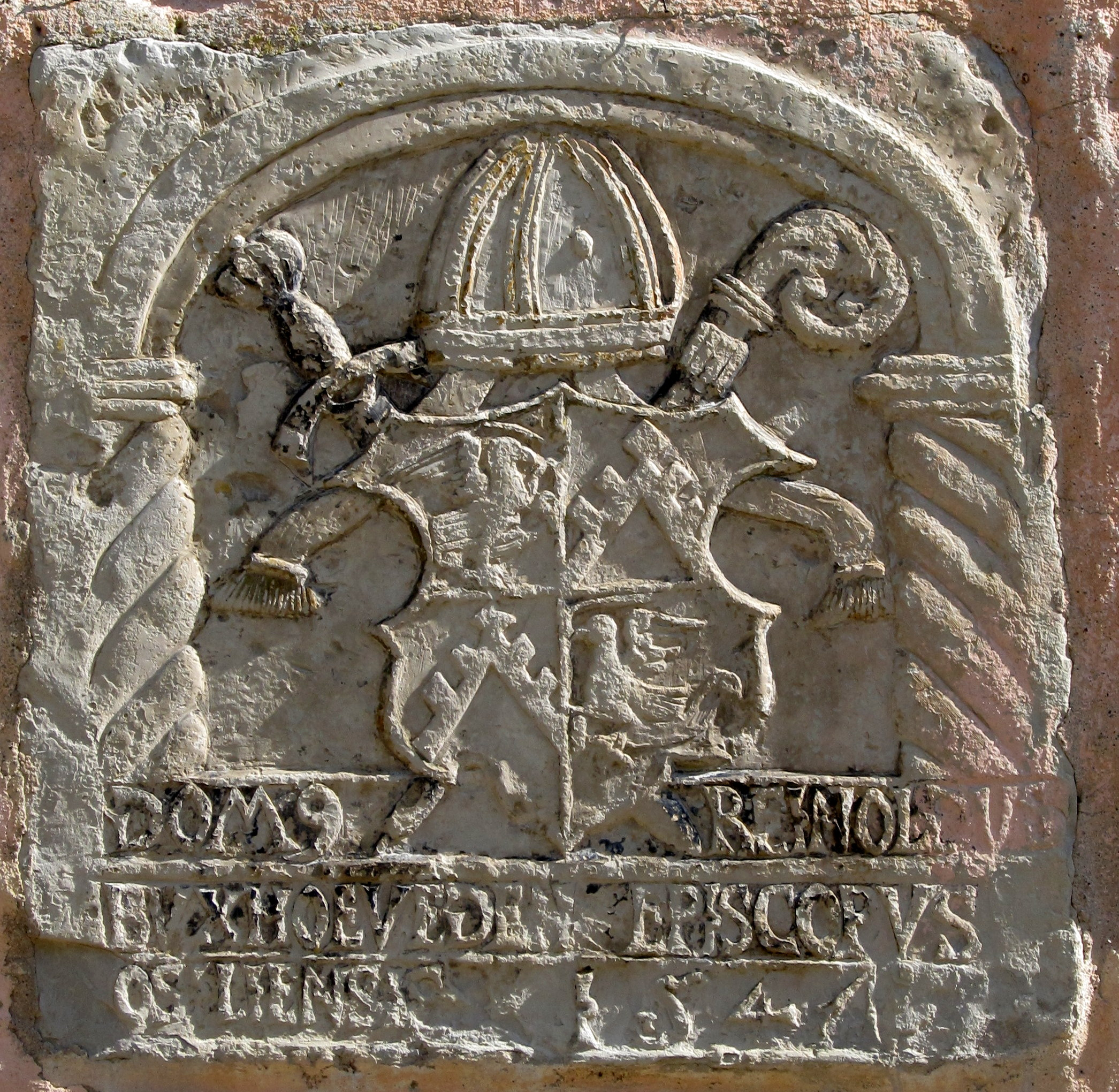 Coat of Arms of Bishop Reinhold von Buxhoevden from Koluvere castle